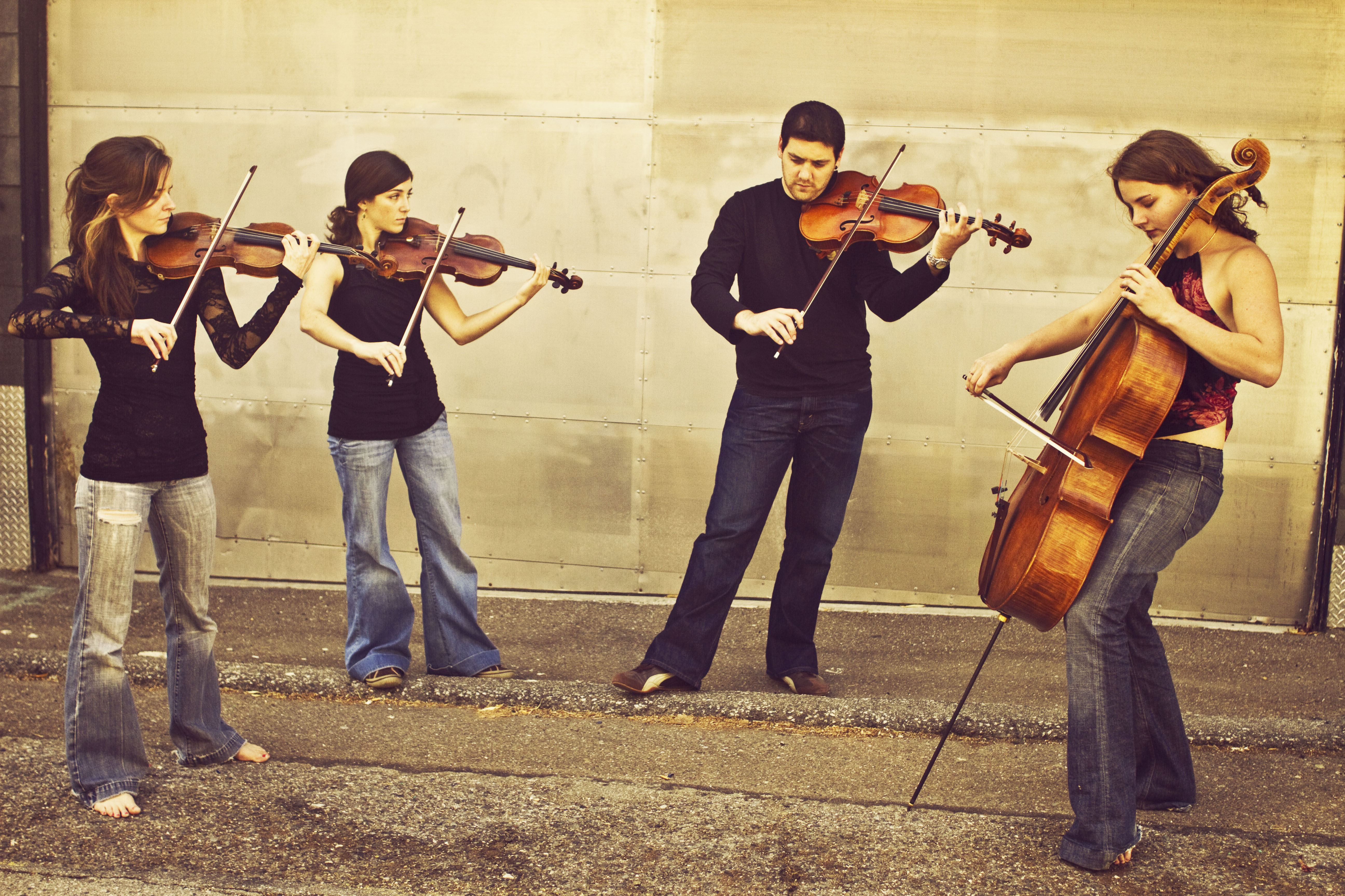 Picture of the Aiana String Quartet while playing, on the streets of San Francisco, CA